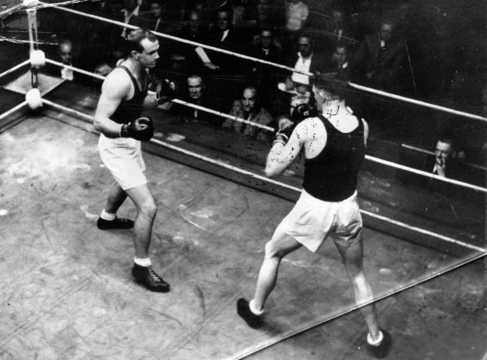 Adrian Holmes, on the left, of the 1948 Australian Olympic boxing team